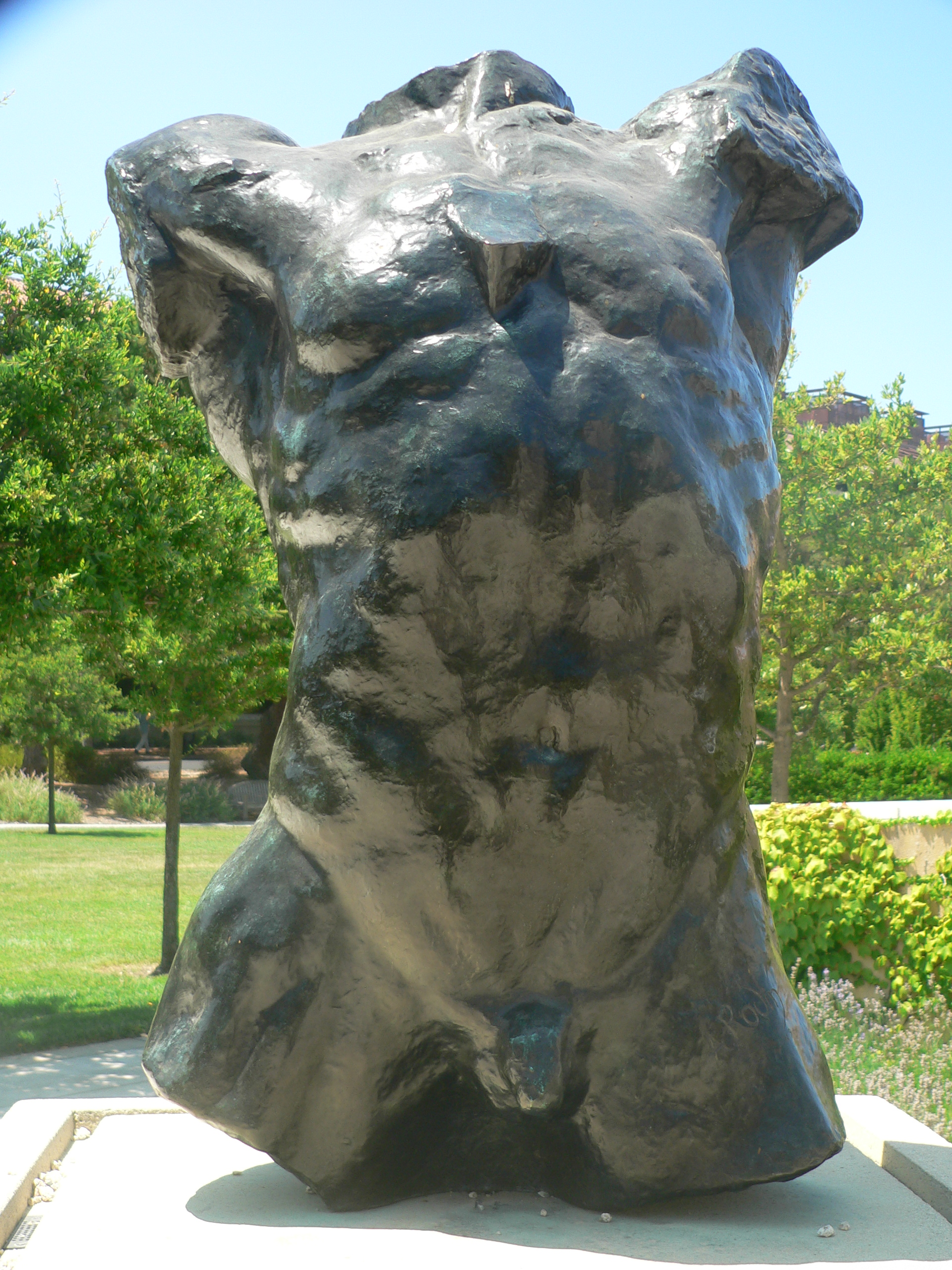 Auguste Rodin, Torso of the falling man